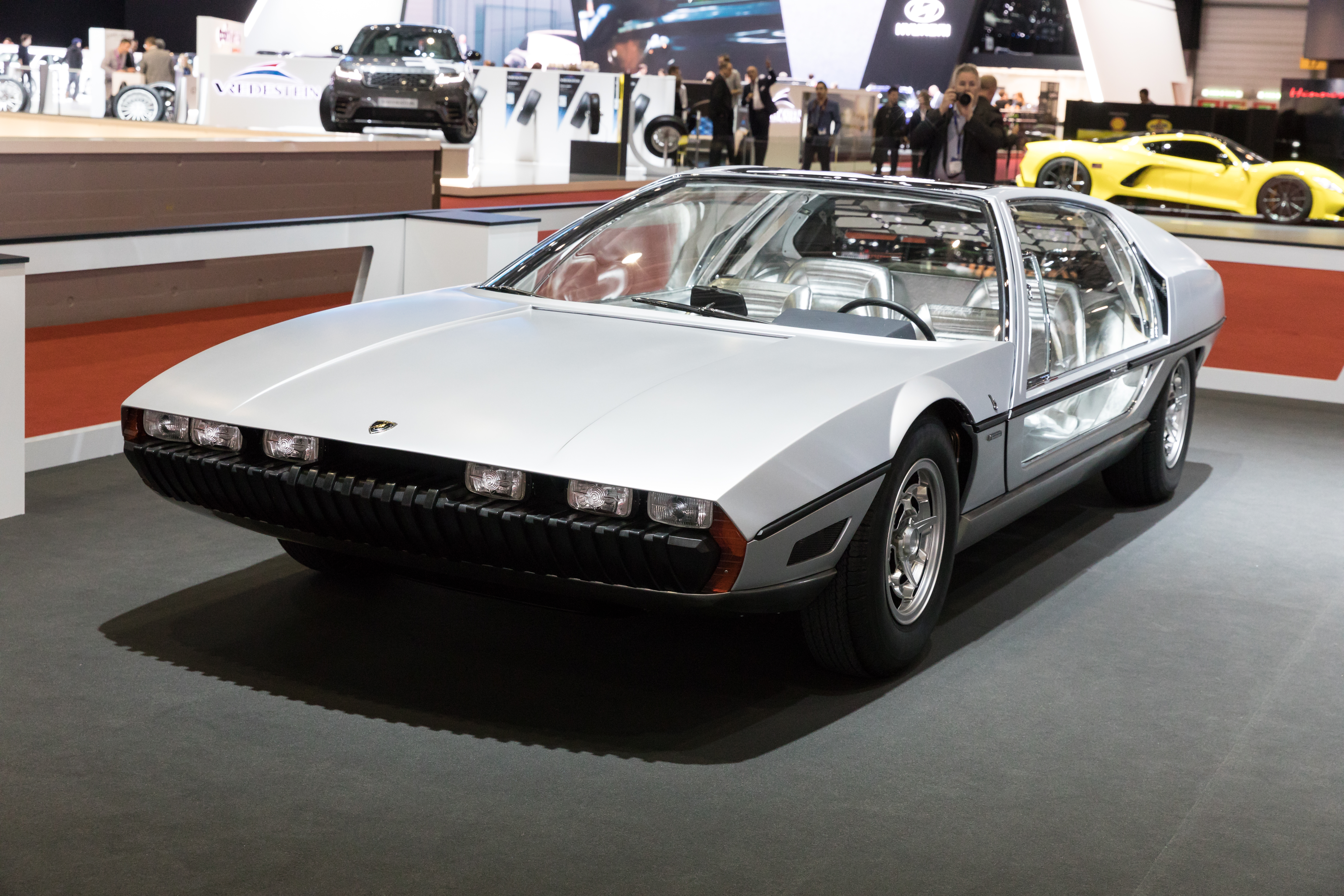 Geneva International Motor Show 2018